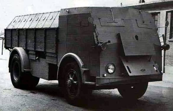 Italian WWII armoured personnel carrier